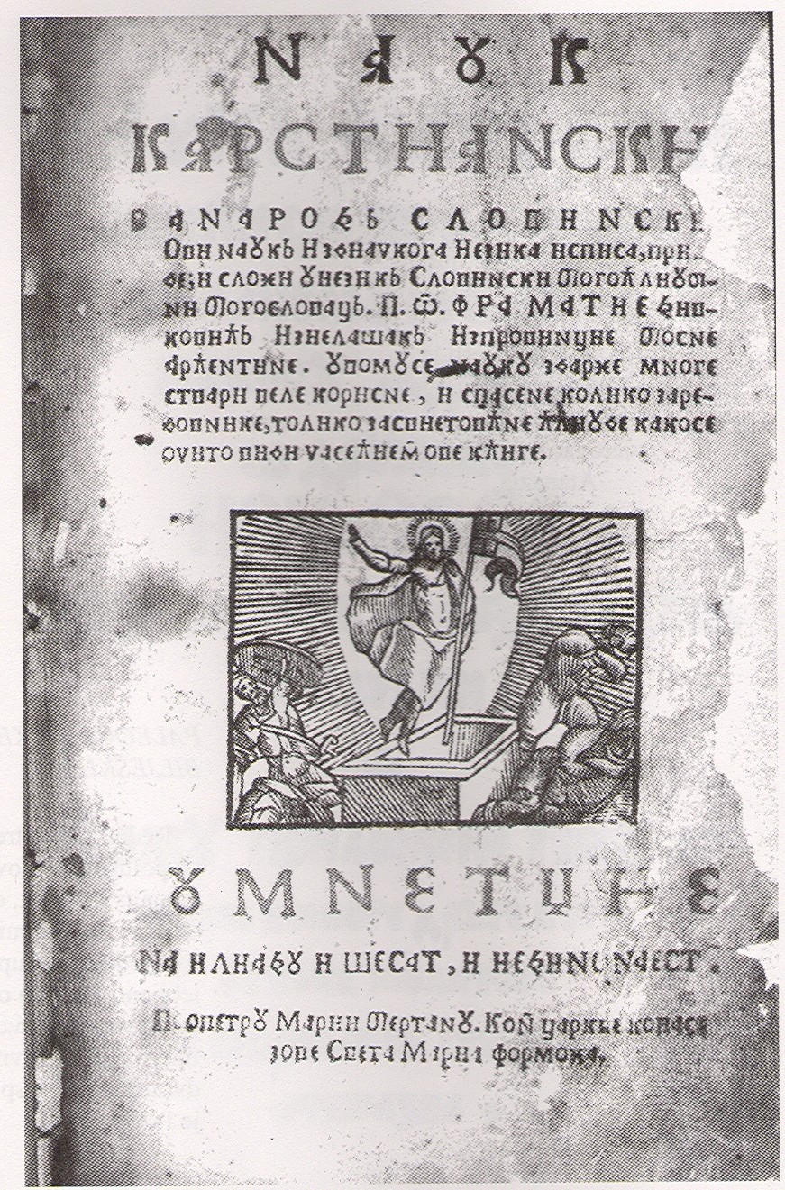 Nausk krstjanski by Matija Divković-frontpage